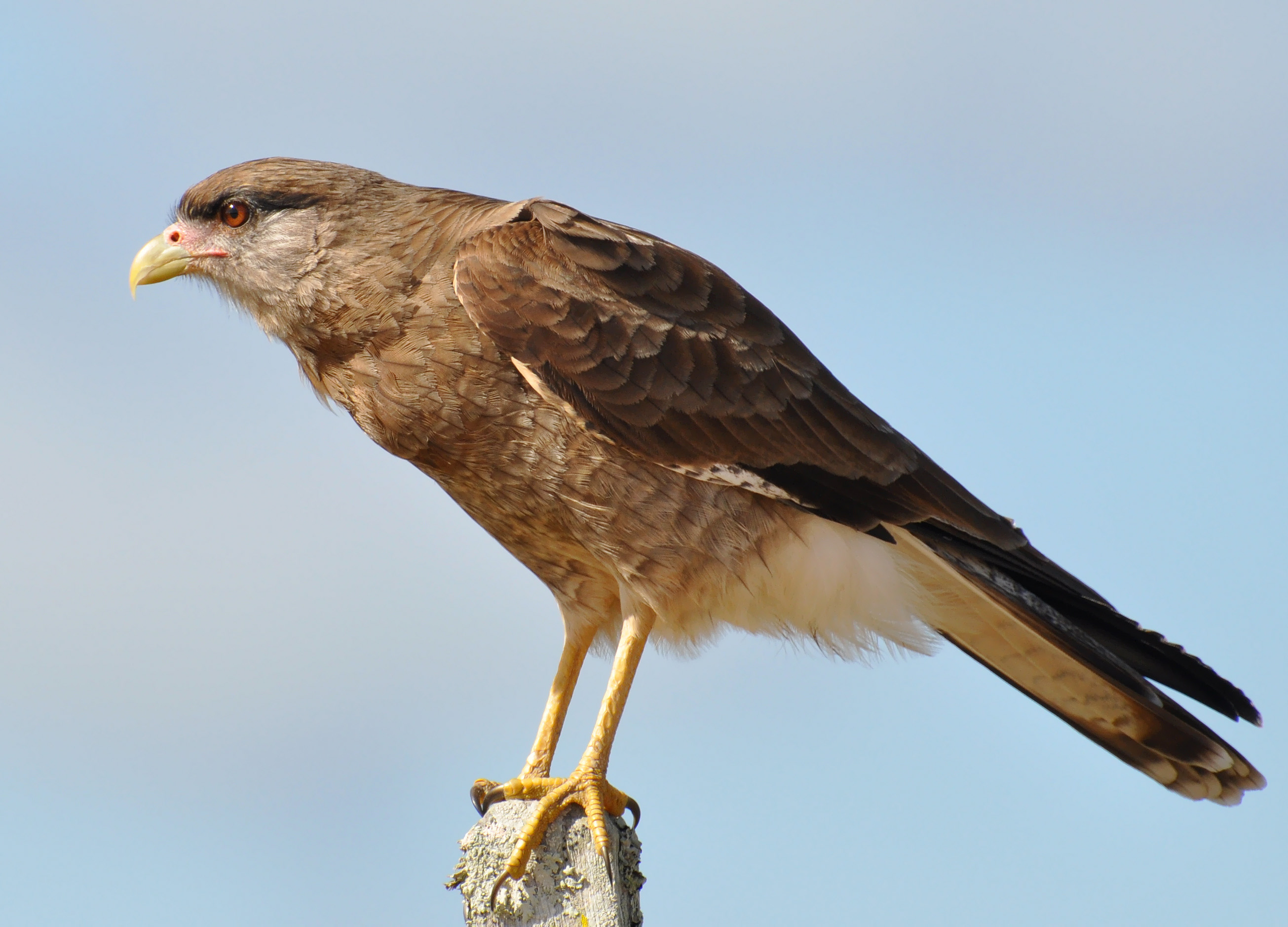 A Chimango Caracara in Rio Grande, Rio Grande do Sul, Brazil.